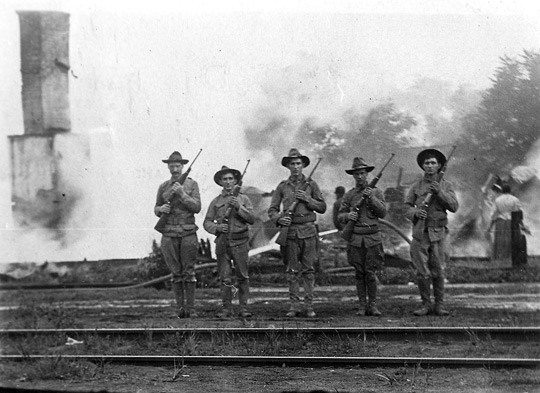 Illinos Militia in The Badlands